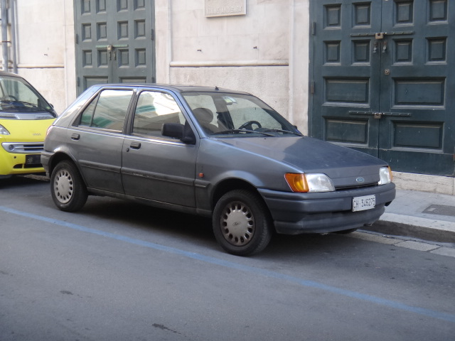 Was pretty happy to finally see one of these for the first time also. They still seem quiet popular here. These were never sold in Australia, but I do know of one getting around near where I live. I last saw it about 3 months ago.